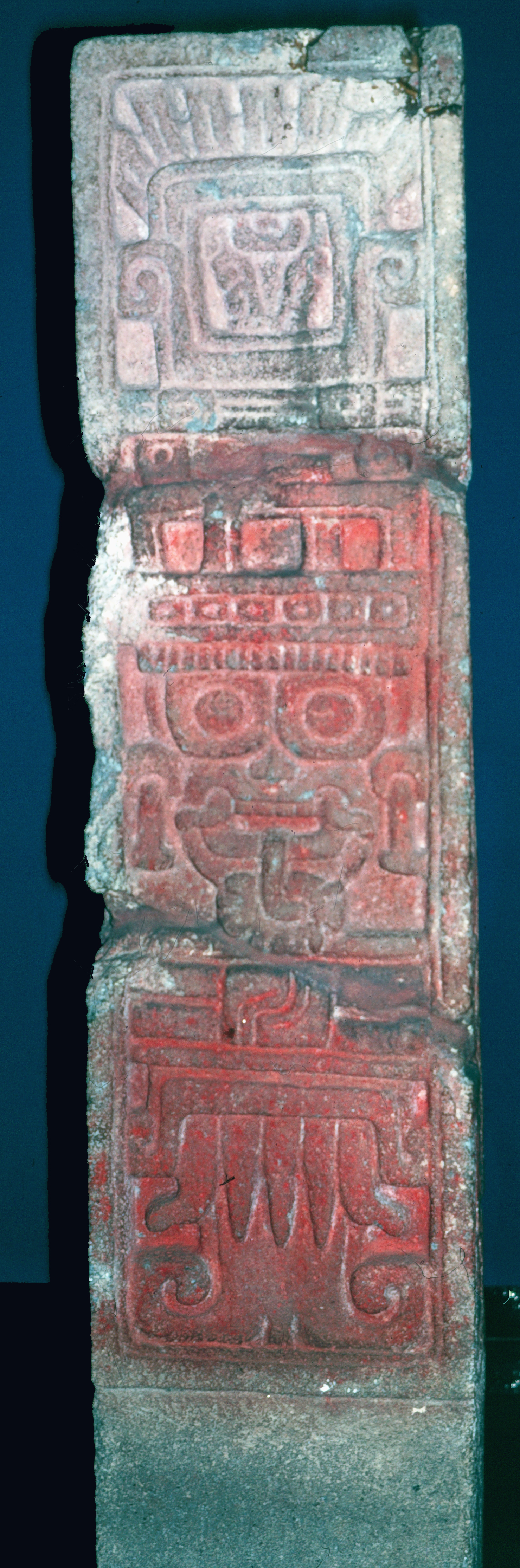 Xochicalco, Morelos, Mexico: Stela 2 (MNA Mexico)